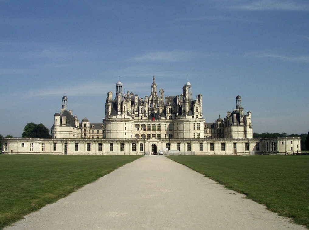 The Château of Chambord, France